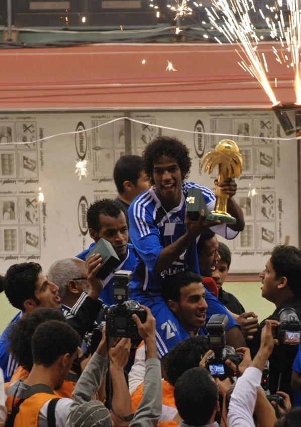 Al-Hilal Champion of Crown Prince Cup 2010.